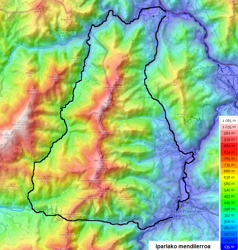 Topographic map showing the Iparla Range.